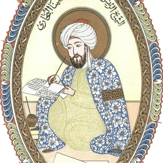 Flipped miniature of Ibn Sina (Avicenna)